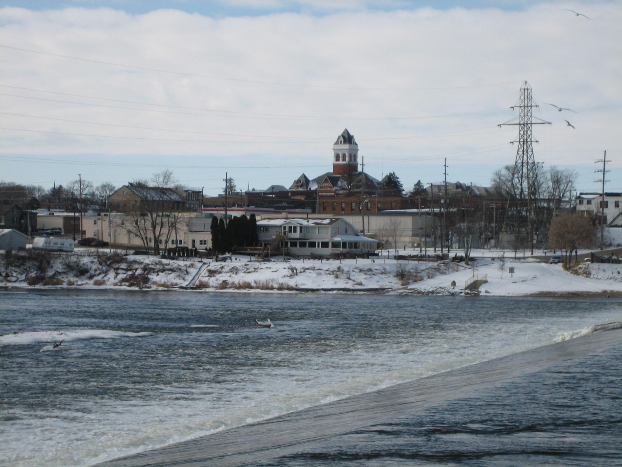 Old Ogle County Courthouse and Oregon, Illinois, from the east side of the Rock River, looking west. National Register of Historic Places.